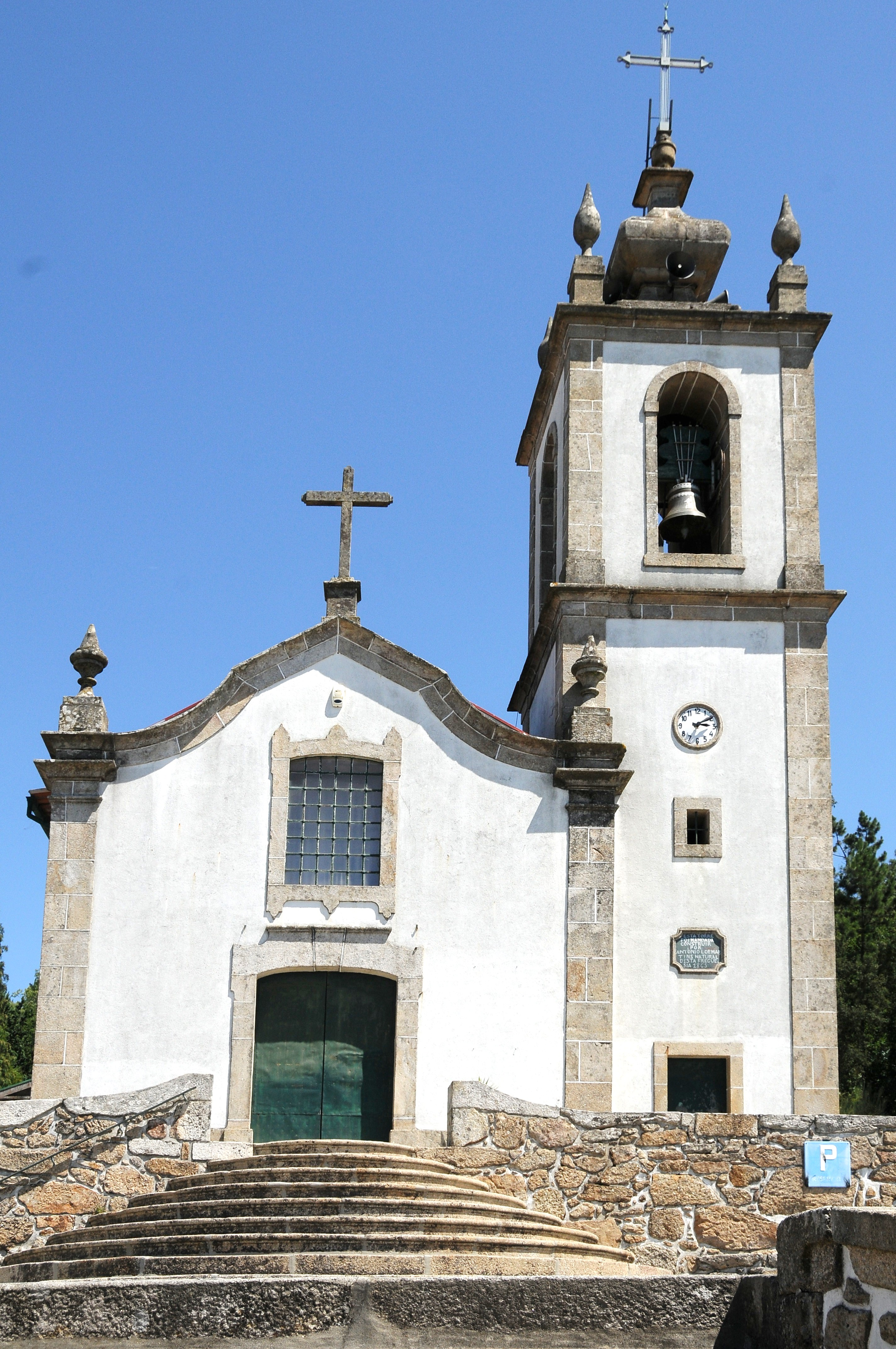 Airo Church in Barcelos Portugal